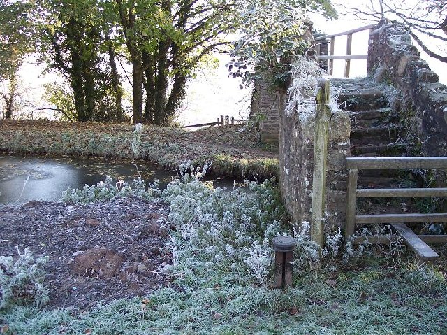 Monmouth & Brecon Canal at Llanellen, Monmouthshire. Llanellen, two miles south of Abergavenny is the point where the 'Usk Valley Walk' leaves the 'Marches Way.' The short post by the footbridge is a Great Western Railway boundary marker.